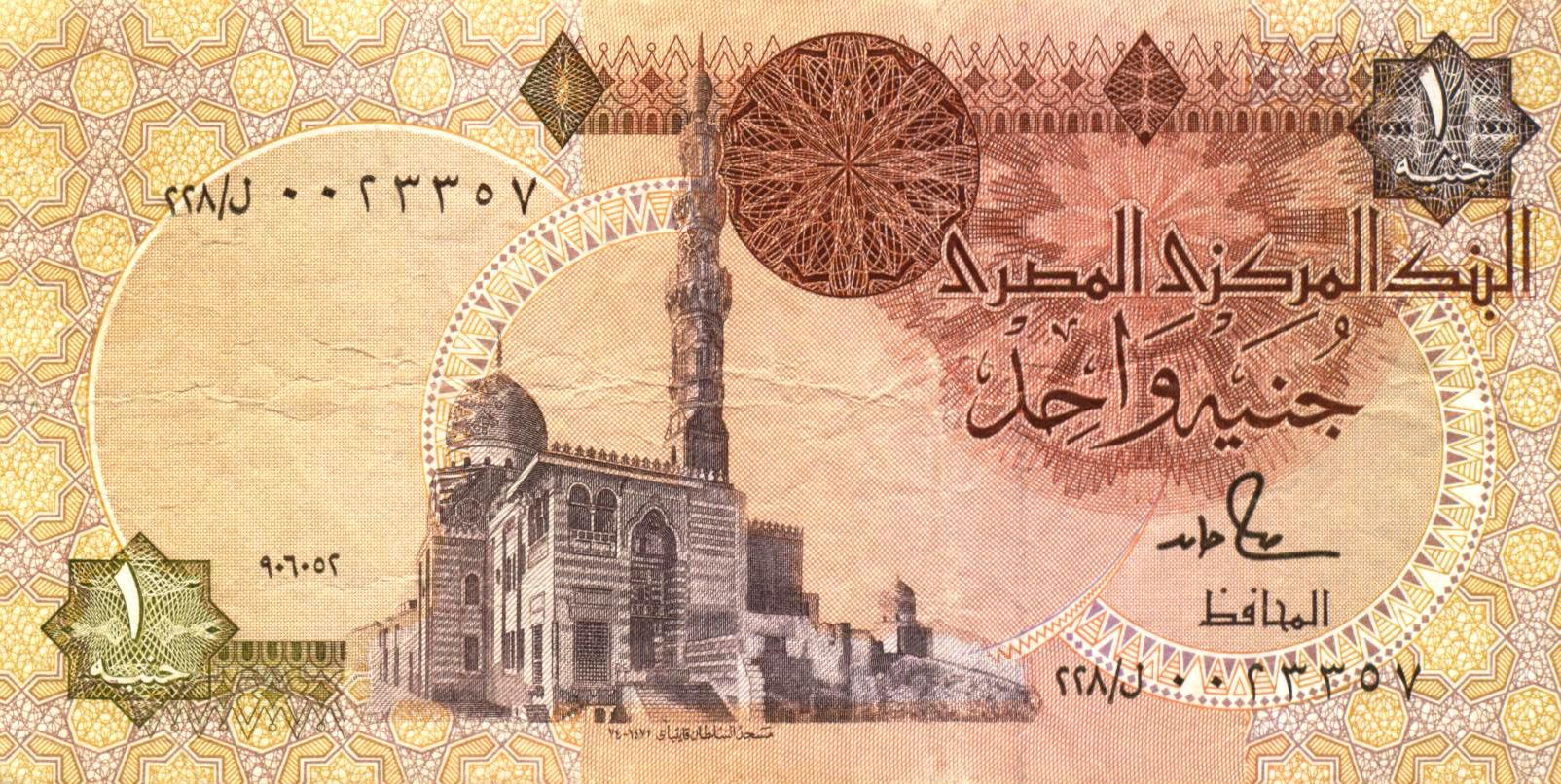 Banknote of 1 Egyptian dollar face